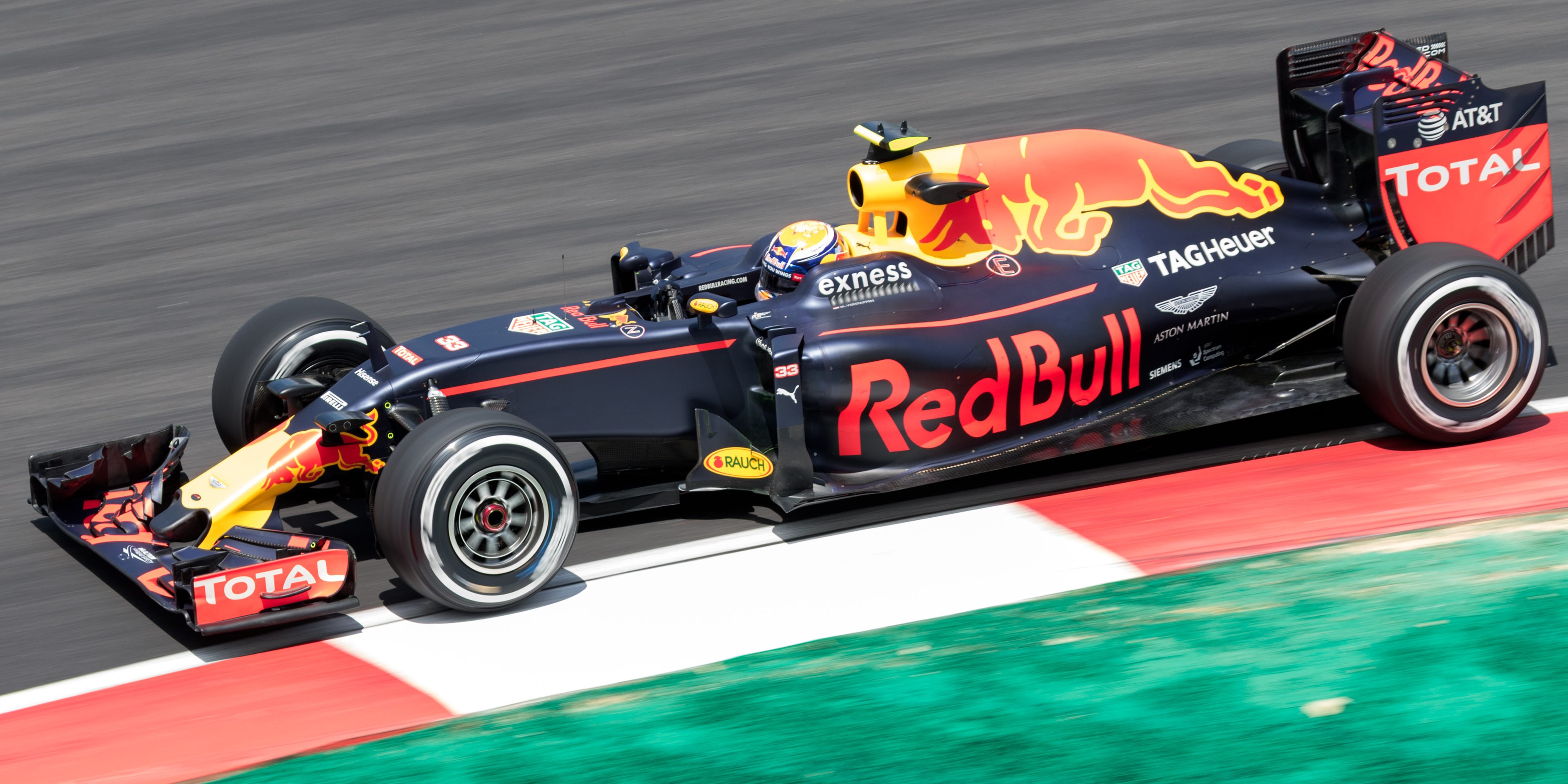 Formula One 2016 Rd.16 Malaysian GP: Max Verstappen (Red Bull)